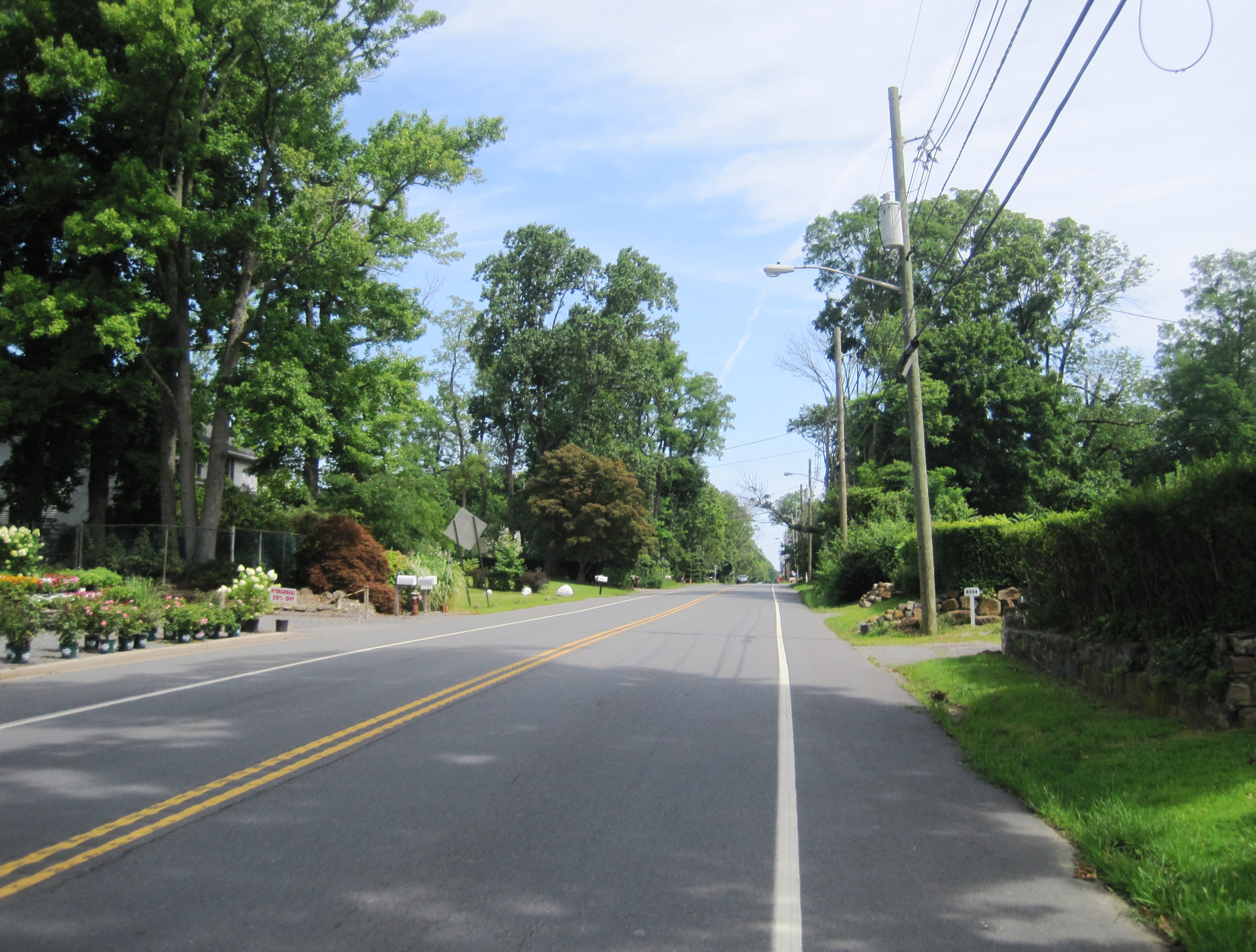 Photo of Little Rocky Hill, New Jersey, an unincorporated community within Franklin Township, Somerset County, and South Brunswick, Middlesex County. Photo taken along New Jersey Route 27 northbound past Carters Brook in Franklin Township.